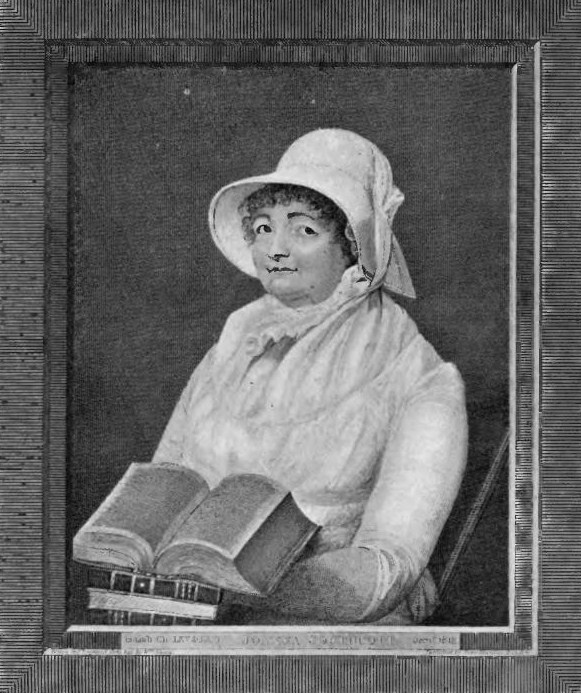 Image from a scanned version of Devonshire Characters and Strange Events by Sabine Baring-Gould and published in 1908